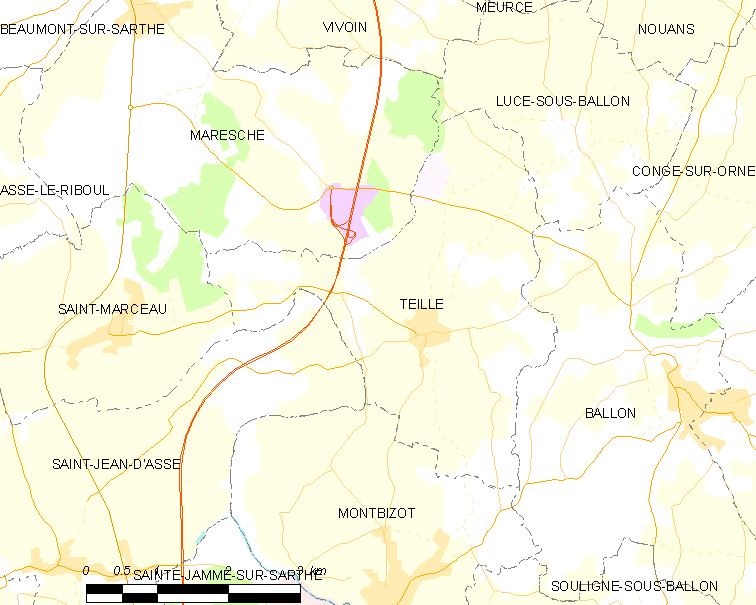 Map of French municipality